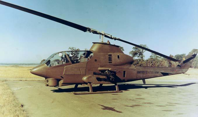 AH-1G Cobra with port side mounting M35 20mm armament subsystem.